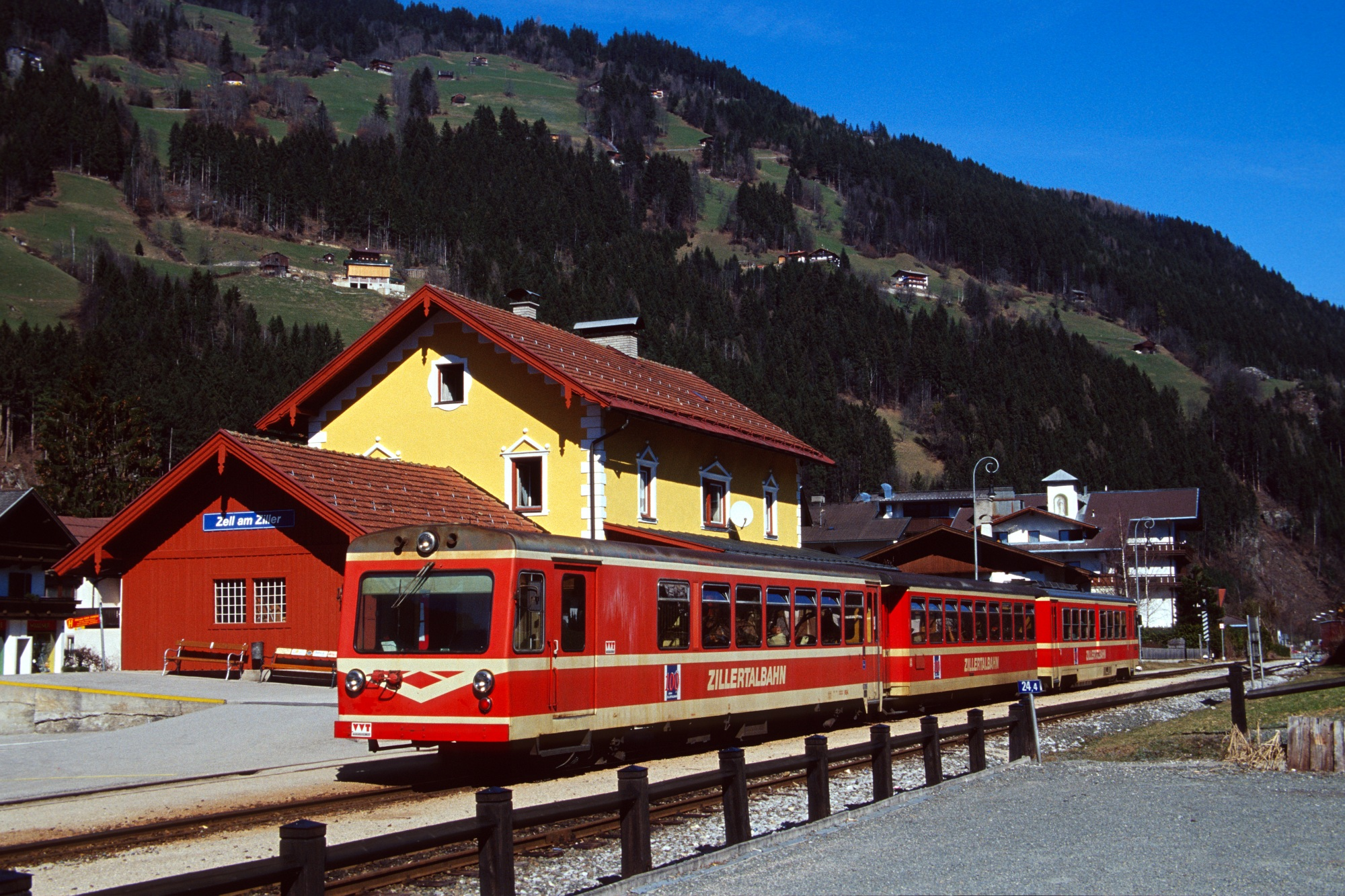 Train of the Zillertalbahn in Zell am Ziller station